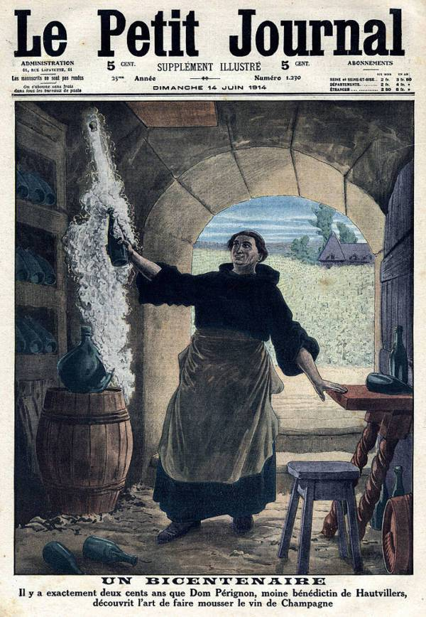 Dom Pérignon “invented” Champagne Le Petite Journal